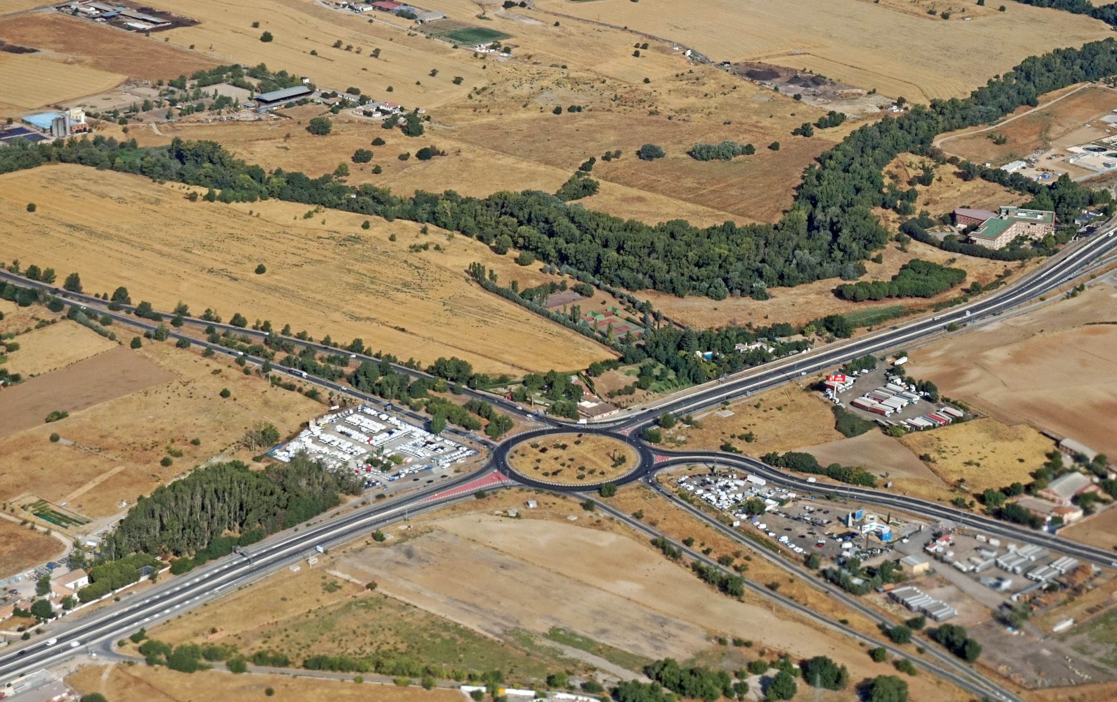 Roundabout joining the roads M-100, M-111 and M-106 in Spain.This photograph was taken with a Sony ILCE-5000